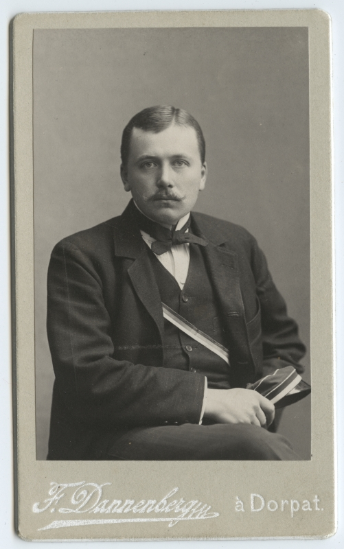 Portrait photograph of Friedrich Kentmann as a student in Tartu, by studio of F. Dannenberg